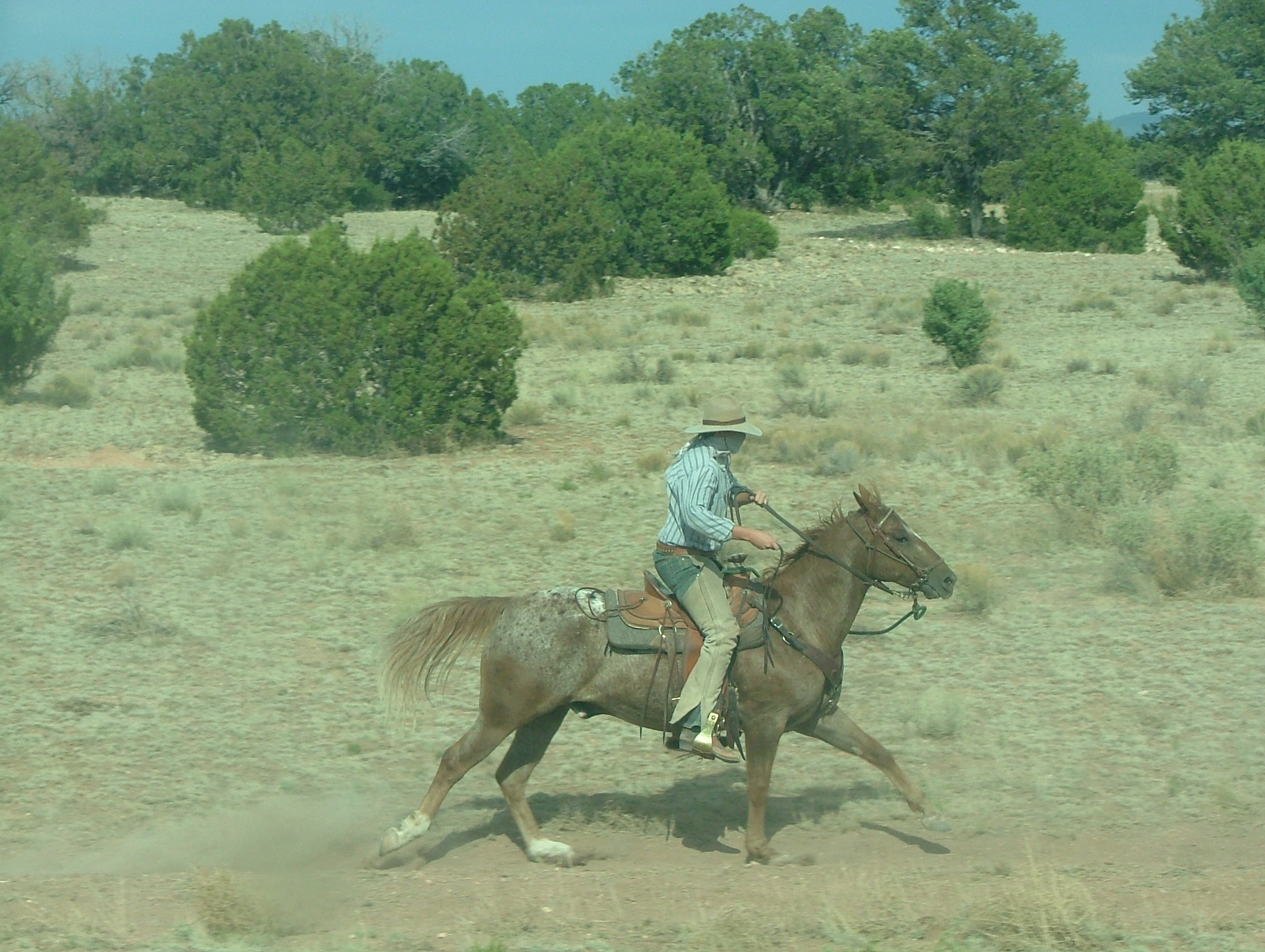 "Train robbery" at the Grand Canyon Railway, 2006.